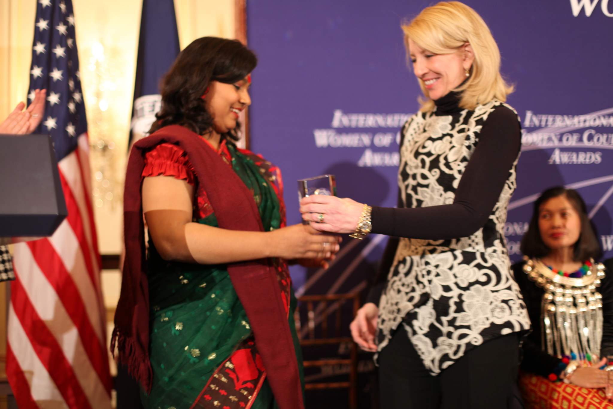 Bangladeshi journalist Nadia Sharmeen among the winners of the U.S. Department of State's 2015 International Women of Courage Awards.